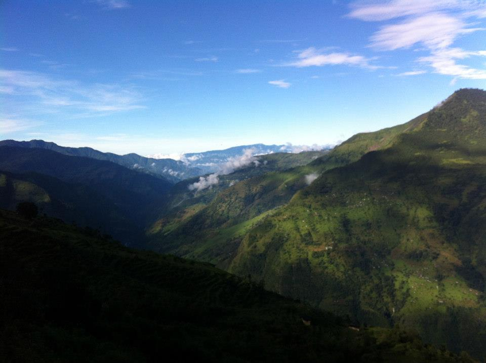 my own use